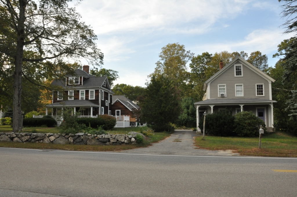 Houses at 24 and 26 High Street in Wilmington, Massachusetts, part of the High Street Historic District.